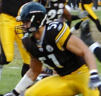 Game action in Pittsburgh during a Pittsburgh Steelers (black/yellow) vs. Tampa Bay Buccaneers (white/red) National Football League game on December 3, 2006. Players depicted include: (Steelers #99) Brett Keisel; (Steelers #51) James Farrior; (Steelers #26) Deshea Townsend; (Bucs #75) Davin Joseph